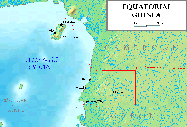 Map of Equatorial Guinea. The island of Annobón is not shown.